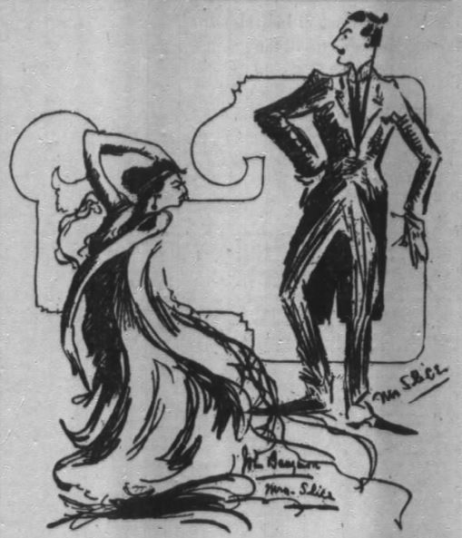 John Barrymore and Ethel Barrymore in A Slice of Life; drawn by John Barrymore